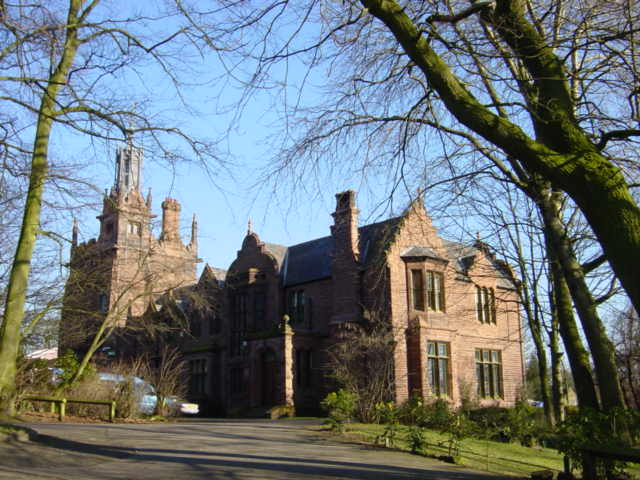 Photograph